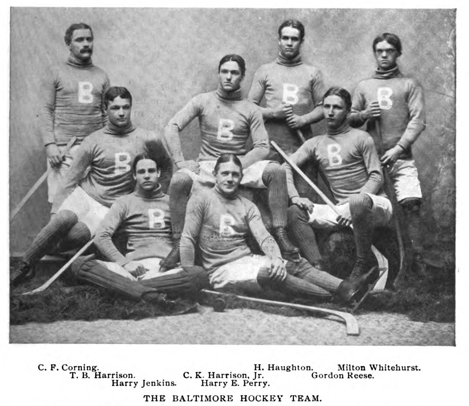 Ice hockey team of the Baltimore Athletic Club (Baltimore Hockey Club) in 1896–1897. Charles Francis Corning, Thomas Bullitt Harrison, Harry Worthington Jenkins, Charles Kuhn Harrison, Harry E. Perry, Hugh Latimer Haughton, Gordon Reese, Milton Morris Whitehurst.